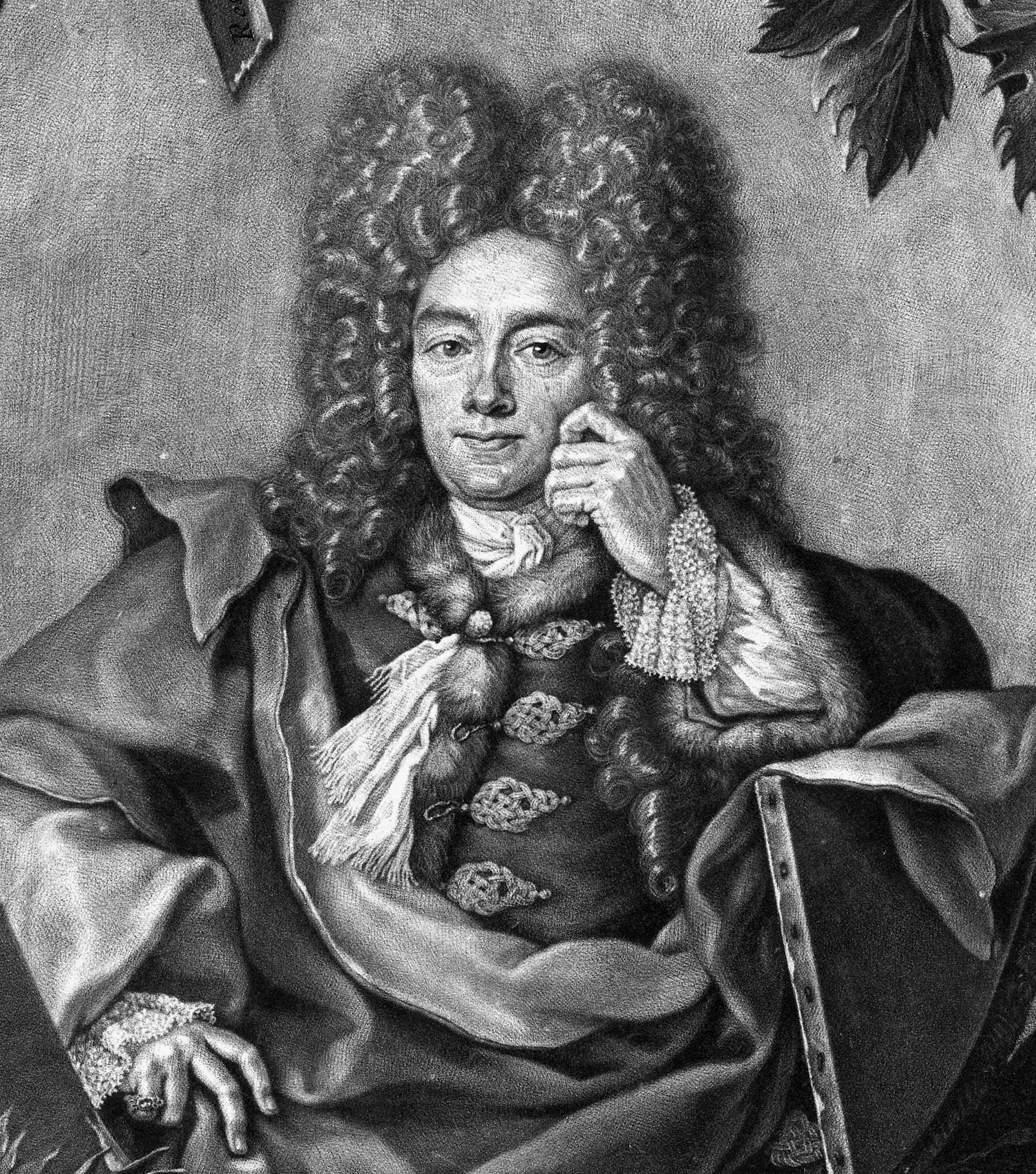 Depicted person: Christoph Ludwig Agricola